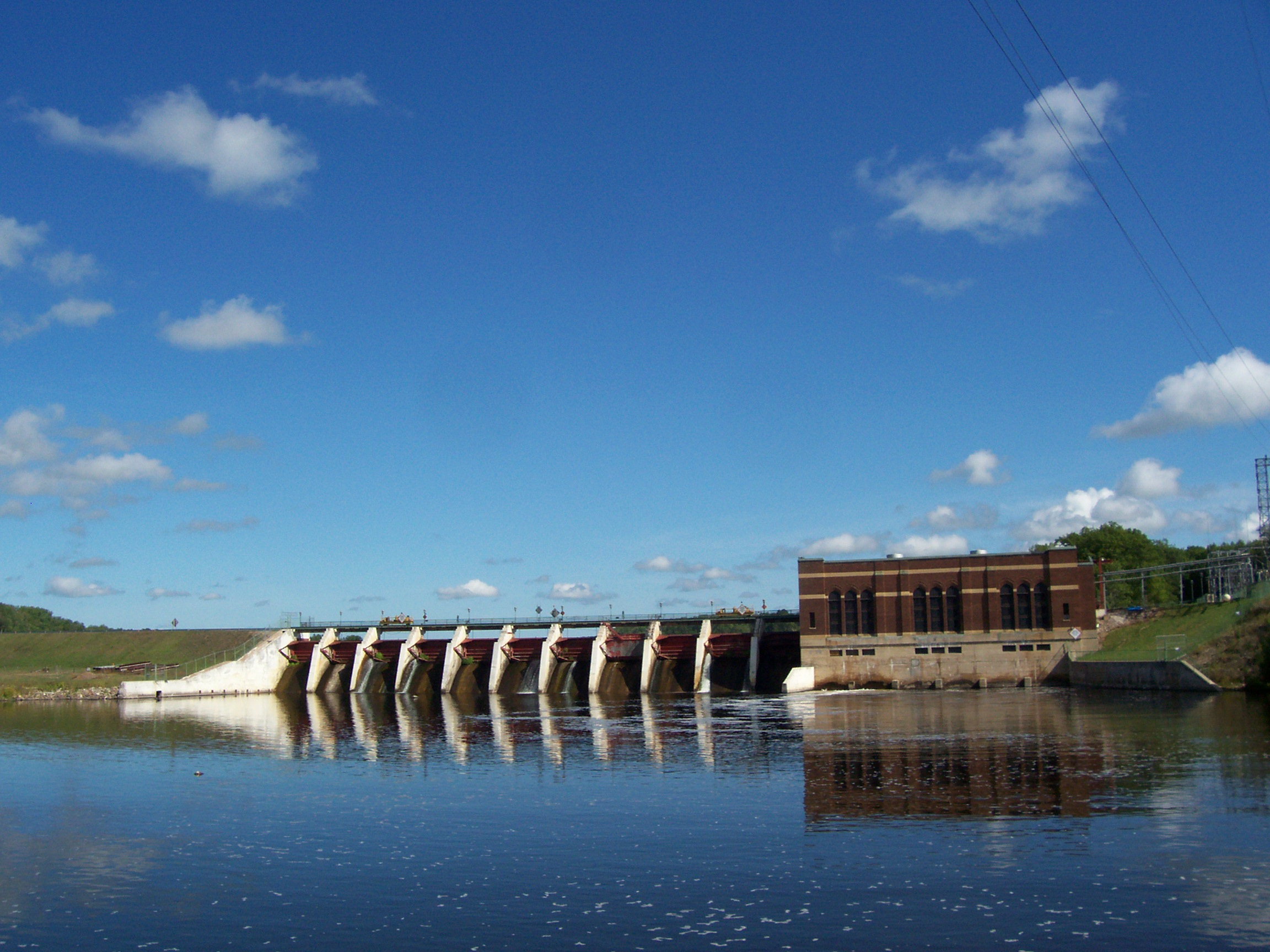 Looking north at the White Rapids Hydroelectric Dam on the Menominee River.